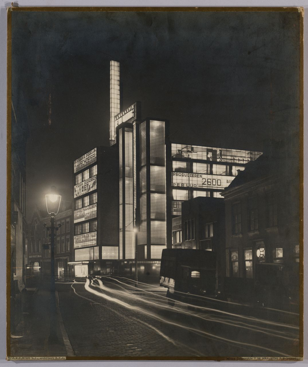 Verzamelgebouw De Volharding, Den Haag, 1928. Architect: J.W.E. Buys en J.B. Lürsen. Fotograaf: onbekend. Collectie NAi / TENT_n5 URL van deze afbeelding: Meer foto's uit deze collectie kunt u bekijken in de Collectiedatabase van het NAi. Niet van alle gebouwen en interieurs zijn alle gegevens bekend. Heeft u meer informatie of weet u het adres van een gebouw? Laat dan een reactie achter (als u ingelogd bent bij Flickr) of stuur een mailtje naar: Al deze foto's zijn gemaakt in de eerste helft van de twintigste eeuw. Wij zijn benieuwd hoe deze gebouwen er vandaag de dag uitzien. Heeft u recente foto's van deze gebouwen of locaties, voeg ze dan toe als commentaar. U kunt een eigen Flickr-foto toevoegen door de URL ervan tussen vierkante haken in het commentaarveld te plakken. Als uw foto's een Creative Commons licentie hebben, nemen we ze bovendien graag op in de NAi Collectiedatabase. Multi-user building De Volharding, The Hague, 1928. Architect: J.W. E. Buys and J.B. Lürsen. Photographer: unknown. NAI Collection / TENT_n5 Persistent URL: For more photographs from this collection, please visit the NAI Collection Database You can help us gain more knowledge on the content of our collection by adding a comment with information. If you do not wish to log in, you can write an e-mail to: All these pictures are taken in the first half of the twentieth century. We are curious to learn how these buildings look like today. If you have recently taken photographs of these buildings or locations, please add them to your comment. If you'd like to include a Flickr photo, simply copy and paste its URL between square brackets in the commentary-field. Photos with a Creative Commons licence may be used to illustrate the NAi Collection Database.